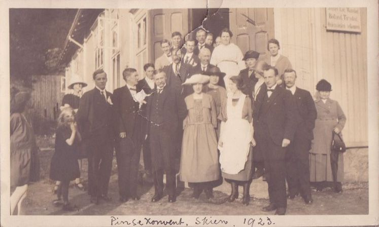 The Bible Students' Congregation in Skien, Norway, 1923